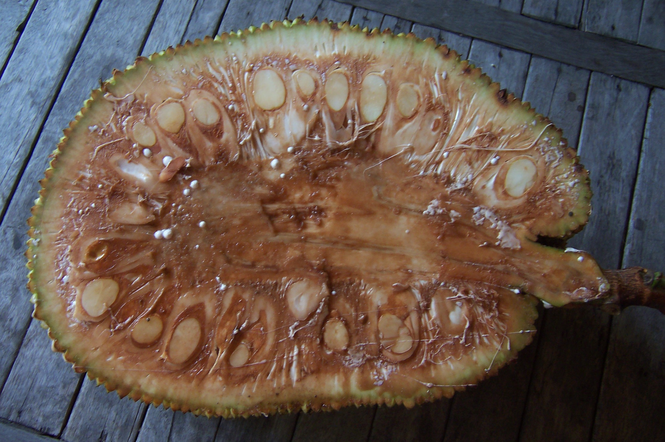 Jackfruit section (Réunion island)